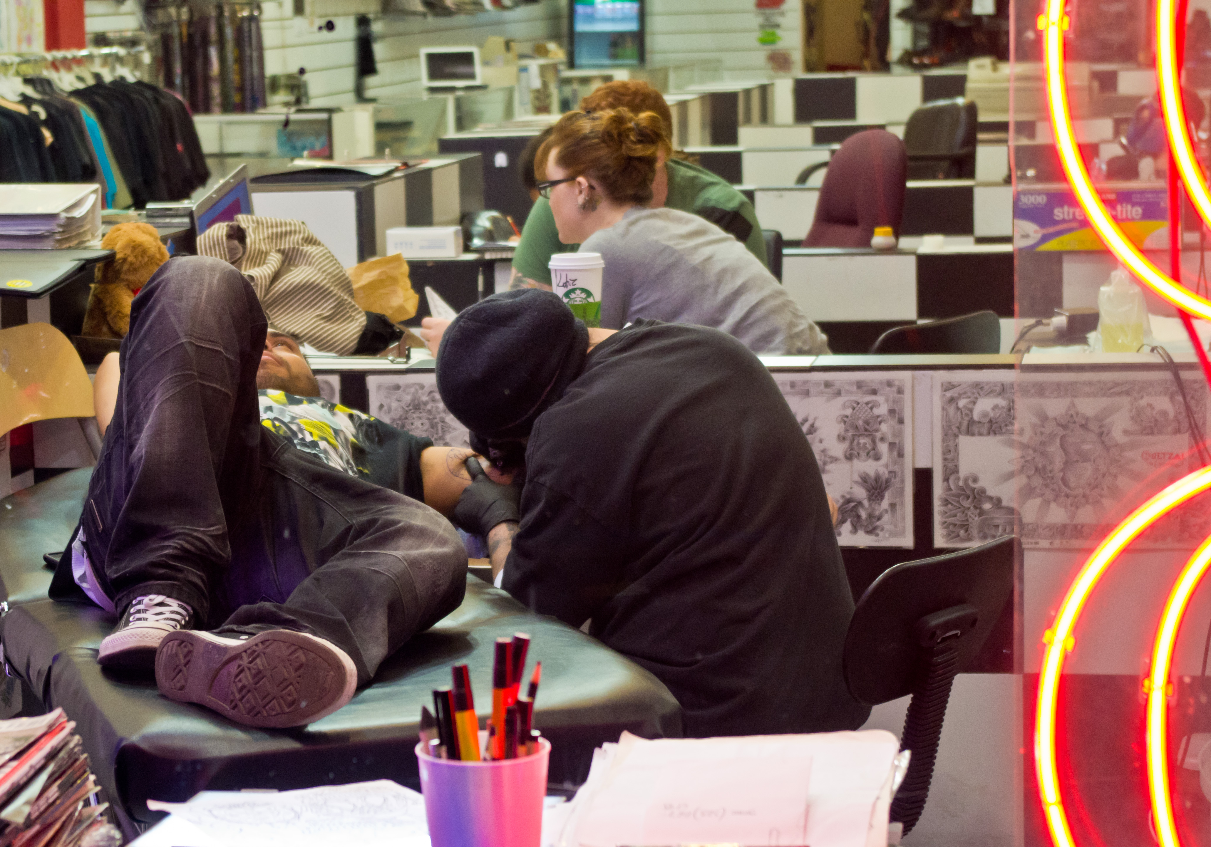 Body tattoo shop in Hollywood